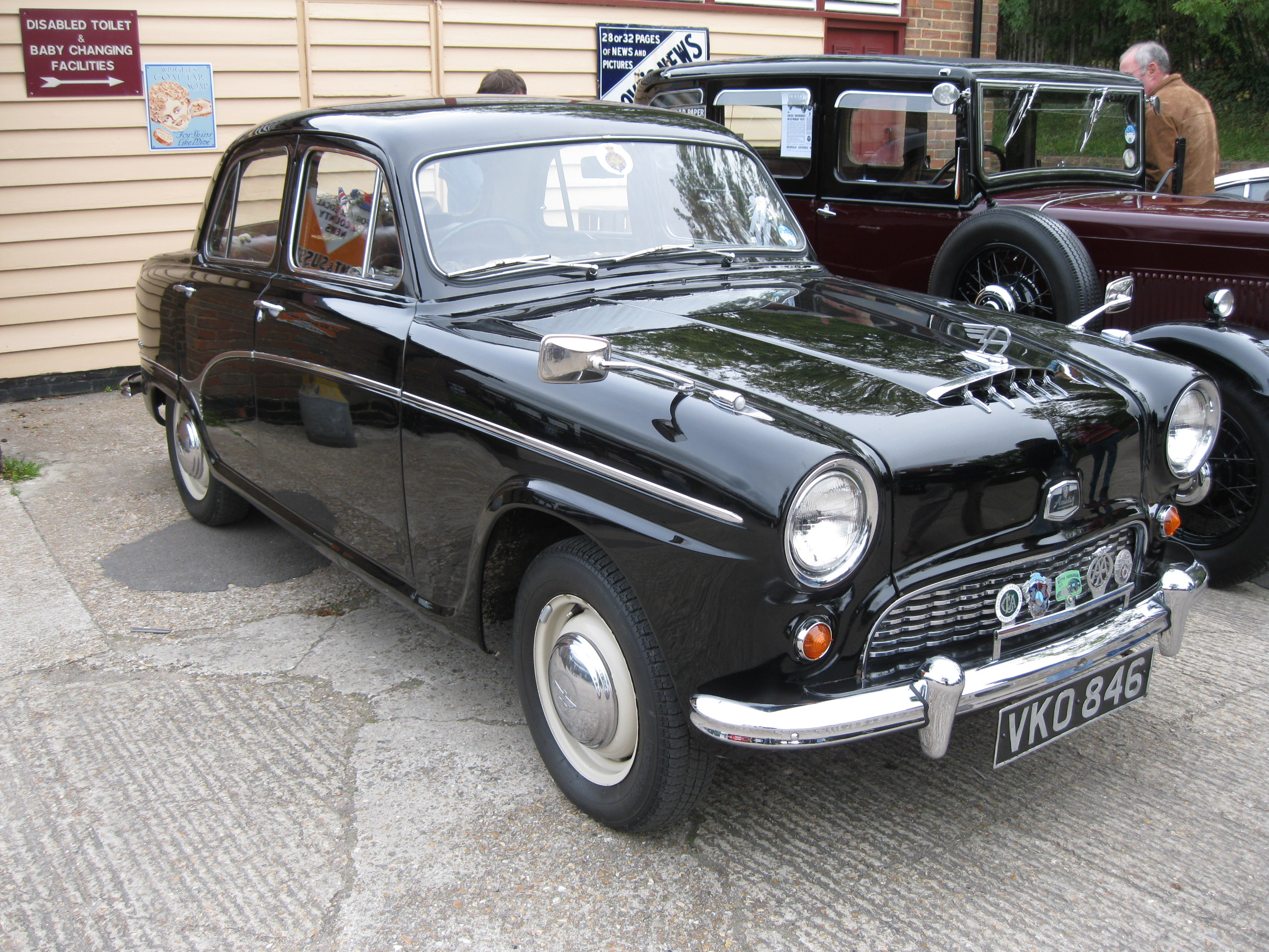 6 cylinder variation of the first Cambridge shape, spotted at an Austin Counties Club meeting at Tenterden Station on the Kent & East Sussex Railway. Love the "Austin of England" script.